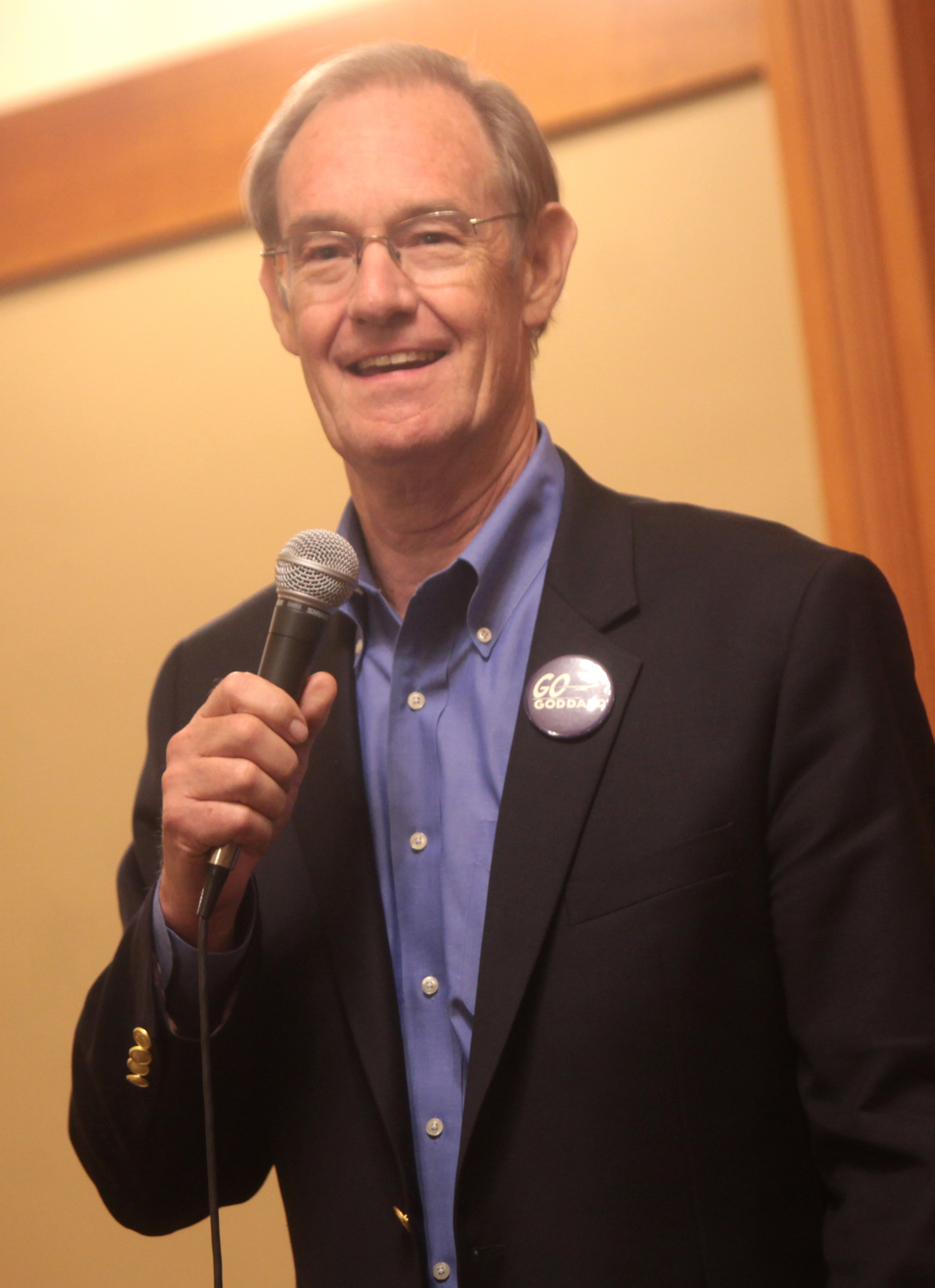 Terry Goddard speaking at a forum in Tempe, Arizona.